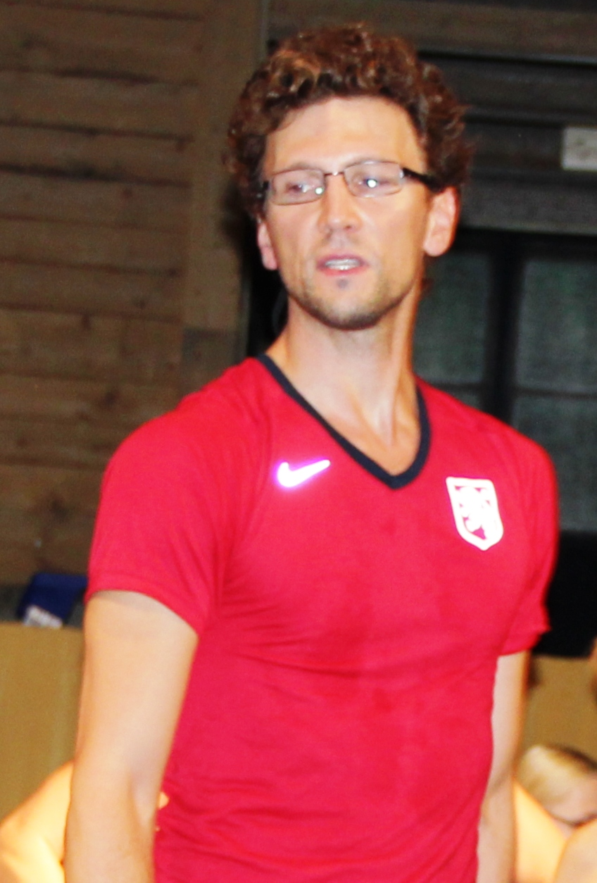 Ballet dancer in Finnish National Ballet